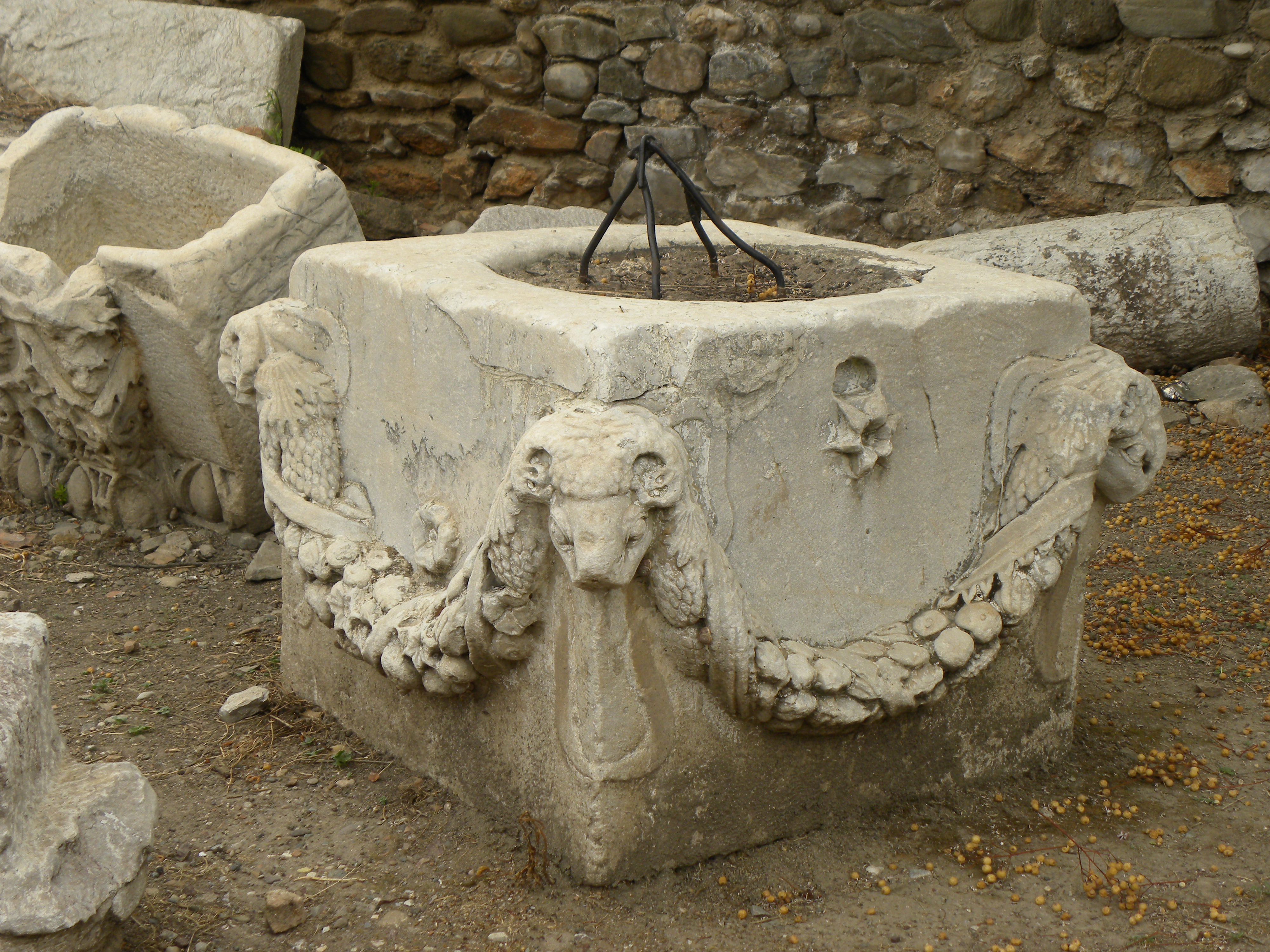 Pillar base (?) from Byzantine Thyatira. This features festal garlands, including flowers (poppies and lillies?) and bunches of grapes. The four corners are adorned with rams' heads.